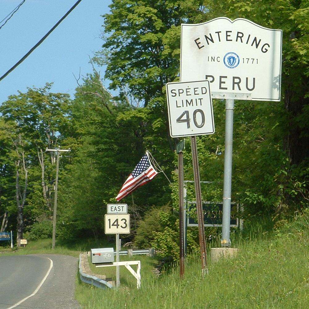 Entering Peru, Inc. 1771. Sign along Route 143 eastbound. Hinsdale-Peru town line, Route 143, Massachusetts